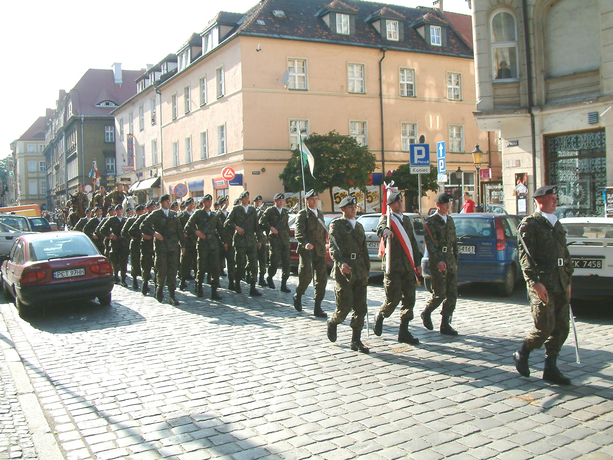 Soliders of Mechanized Battalion of 15th Greater Poland Armoured Cavalry Brig. - continuators ot traditions of 7th Mounted Shooters Reg.